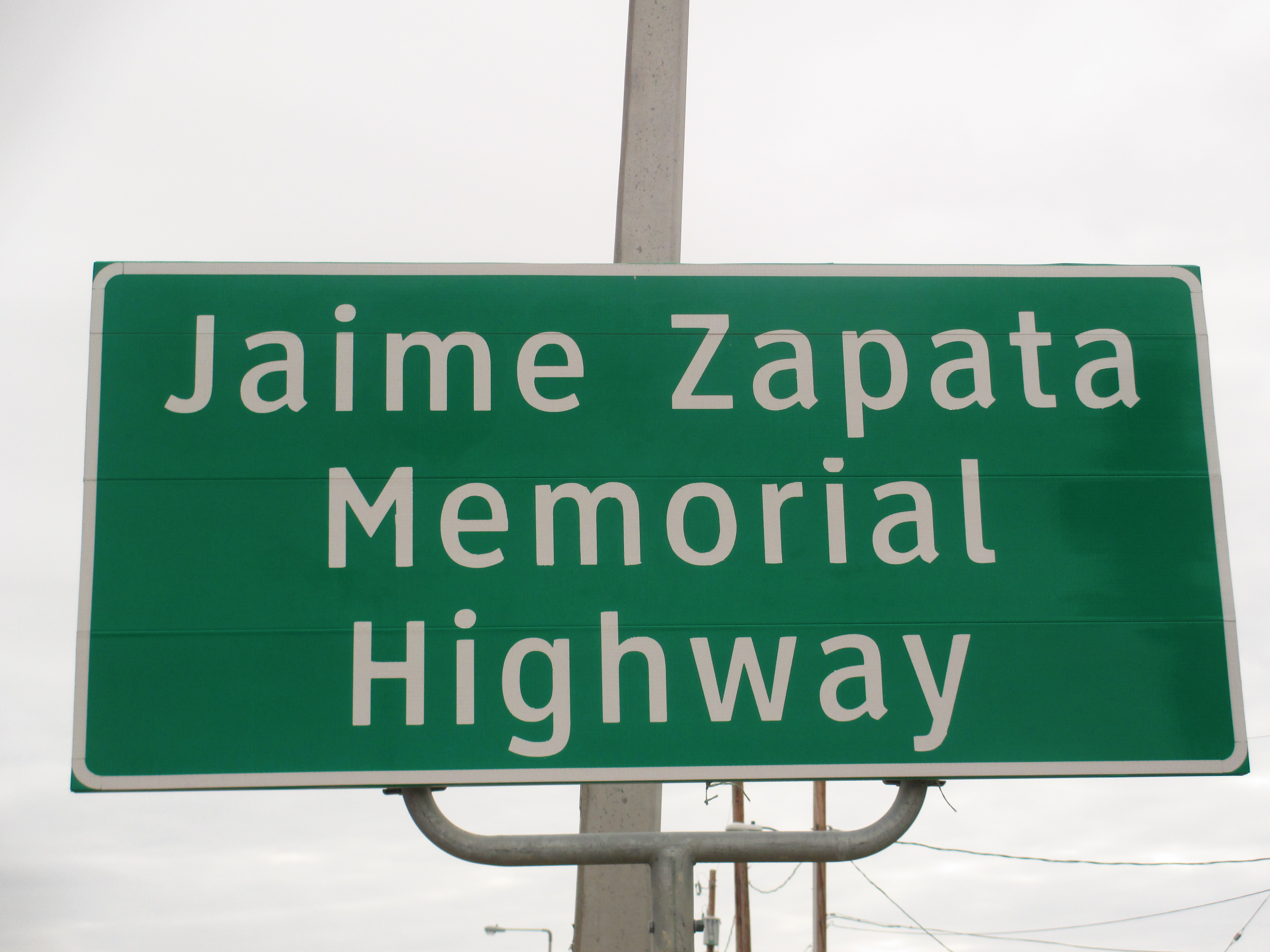 sign of Jaime Zapata Memorial Highway